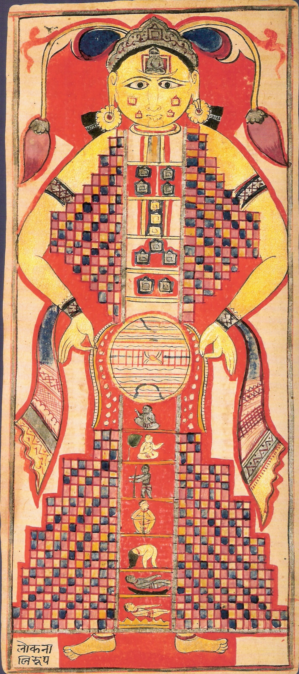 Shape of Universe as per Jain cosmology in form of a cosmic man. From Samghayanarayana loose-leaf manuscript India; ca. 16th century Ink, opaque watercolor, and gold on paper. The Jain universe is divided into three basic realms, which together form the composite "Cosmic Man," or Lokapurusha, illustrated in this manuscript page. The torso and head of the Cosmic Man contain a series of ten or twelve heavenly realms where the inhabitants experience lives of pleasure. The legs represent a series of seven hells, which contain the majority of souls and offer an endless variety of torments. But the smallest part of the universe, represented by the disk at the Lokapurusha's waist, is the most important. This middle world, which is rotated in this diagram to show its details, is the mere sliver of the cosmos where humans can live and where the great Jain teachers can be born. Here the mixture of pleasure and pain, of good and bad, provides the perfect environment for religious practice and ethical awareness, ultimately making it the only realm where spiritual liberation is possible. When this occurs, the perfected soul floats to the top of the universe and eternally resides in the crescent-shaped realm above the heavens, shown at the forehead of the Lokapurusha.